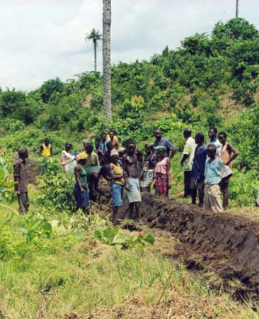 Guéckédou school, Guinea